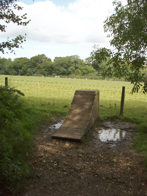 "Platform for Self Elevation" - a useful sculpture This concrete ramp is an exhibit in Cowleaze Wood Sculpture Trail. Made in 2001 by Jonathan Griffin, the title "Platform for Self Elevation" is an obvious invitation to climb it.